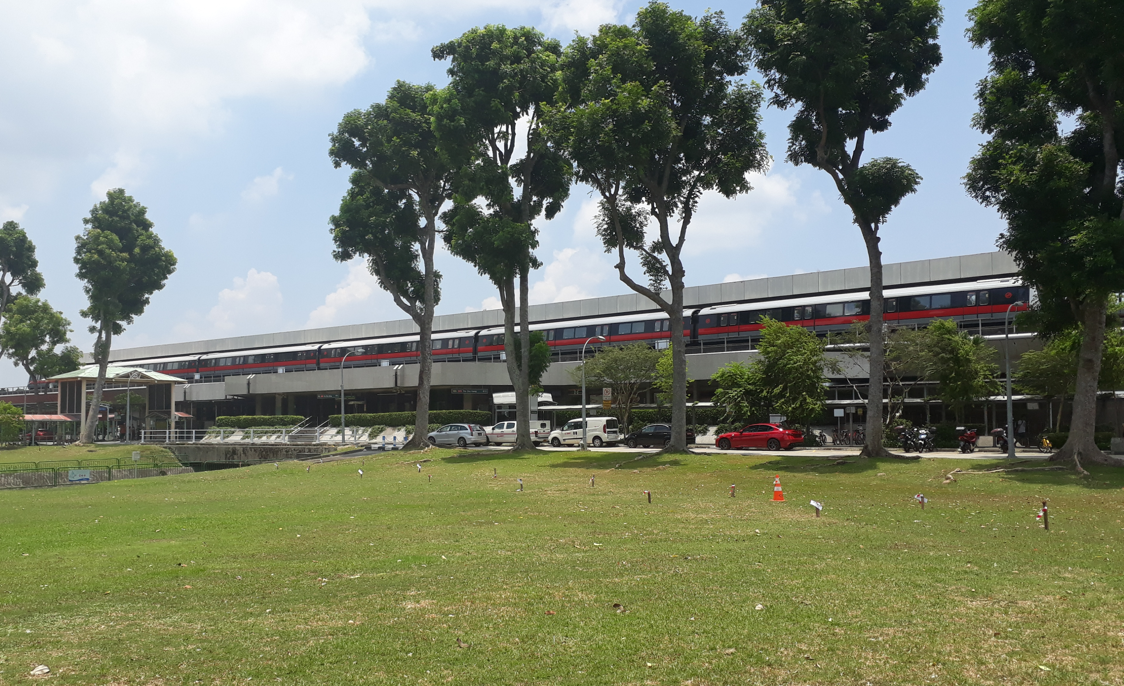 Yio Chu Kang